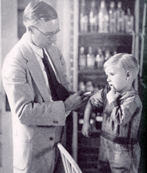 Boy who was bitten by a dog receiving a rabies vaccine. He received the shot at a Commonwealth Fund-supported "Child Health Program" demonstration site in Rutherford, Tenn.